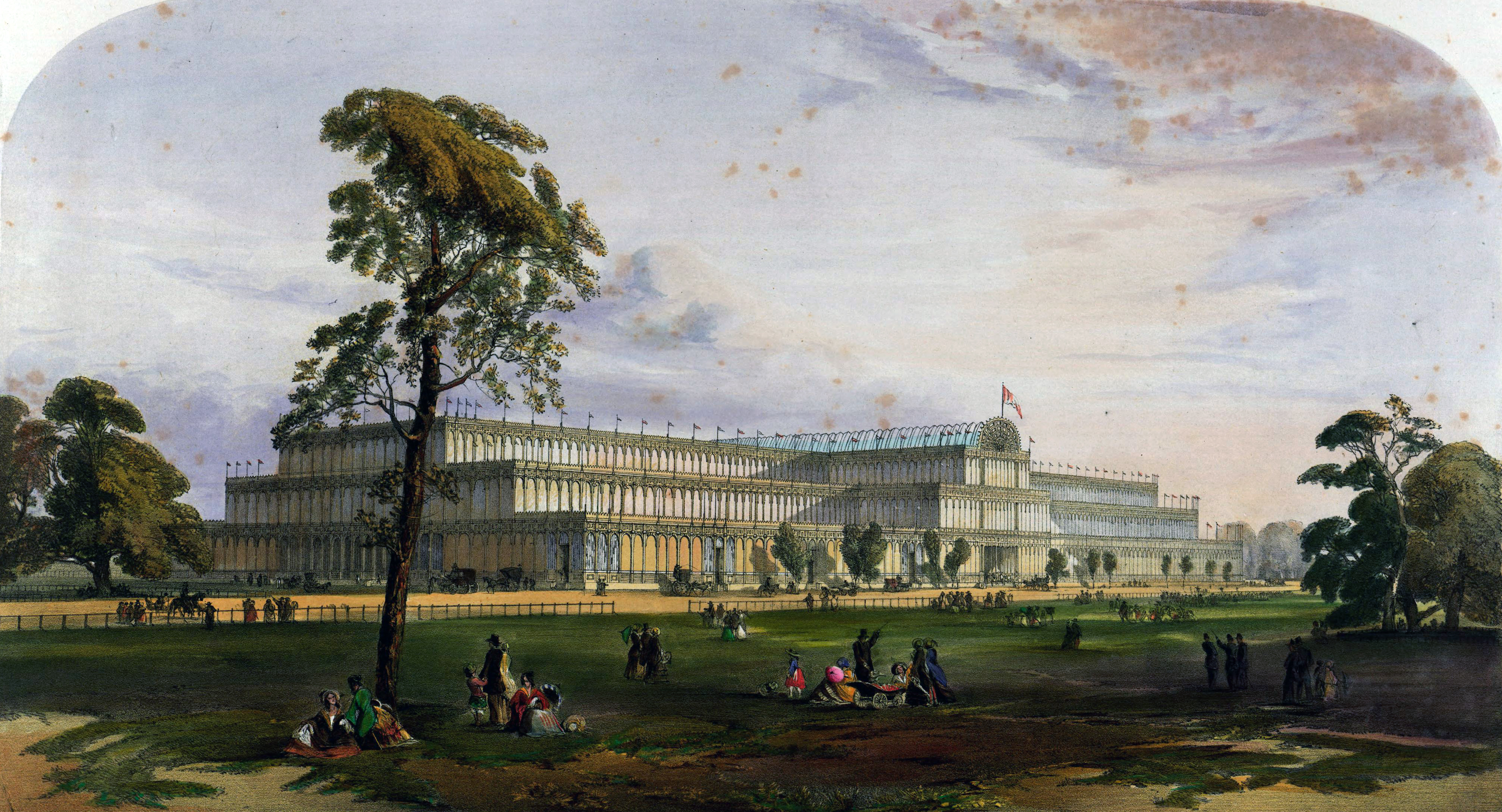 The Crystal Palace from the northeast during the Great Exhibition of 1851.